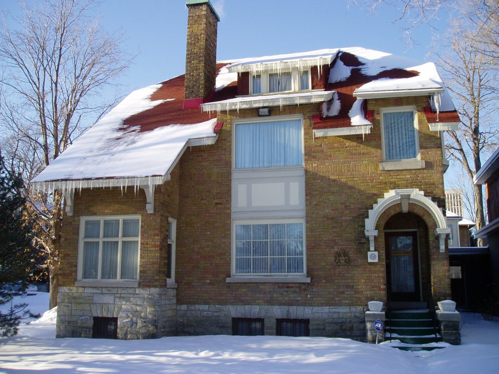 Embassy of Malawi in Ottawa, Canada